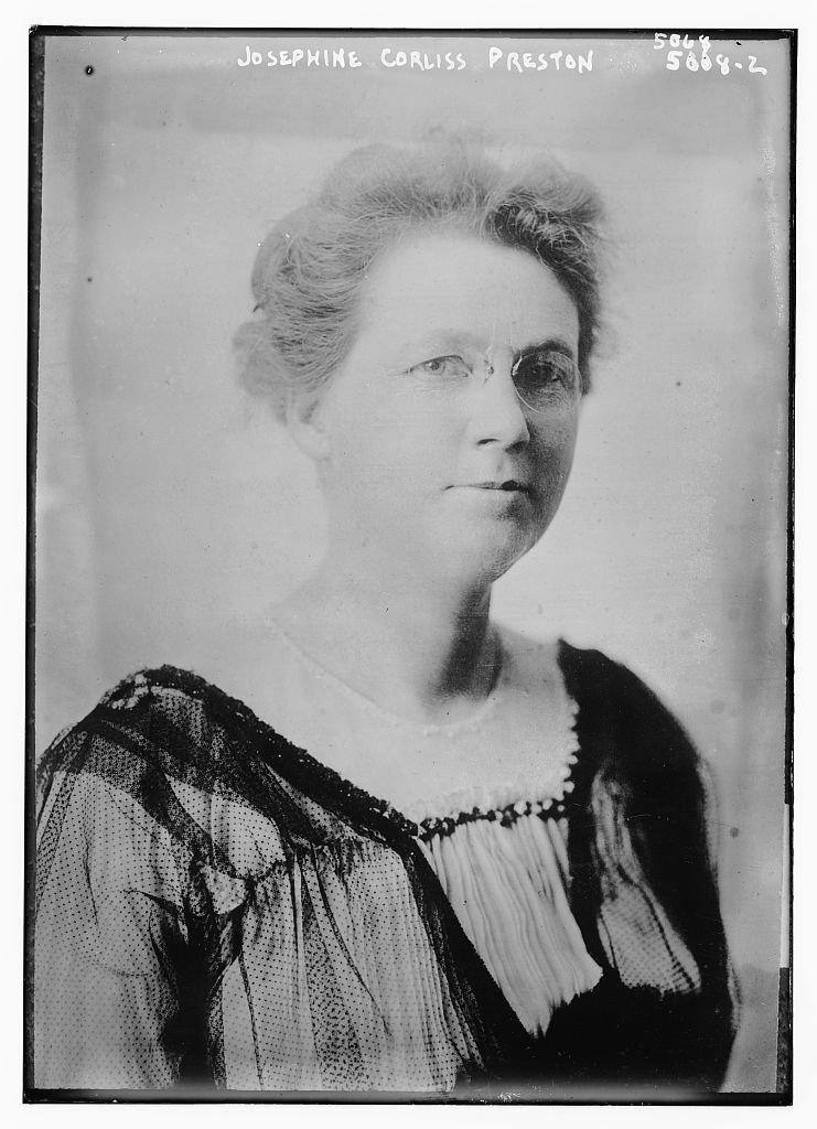 Josephine Corliss Preston facing right circa 1915